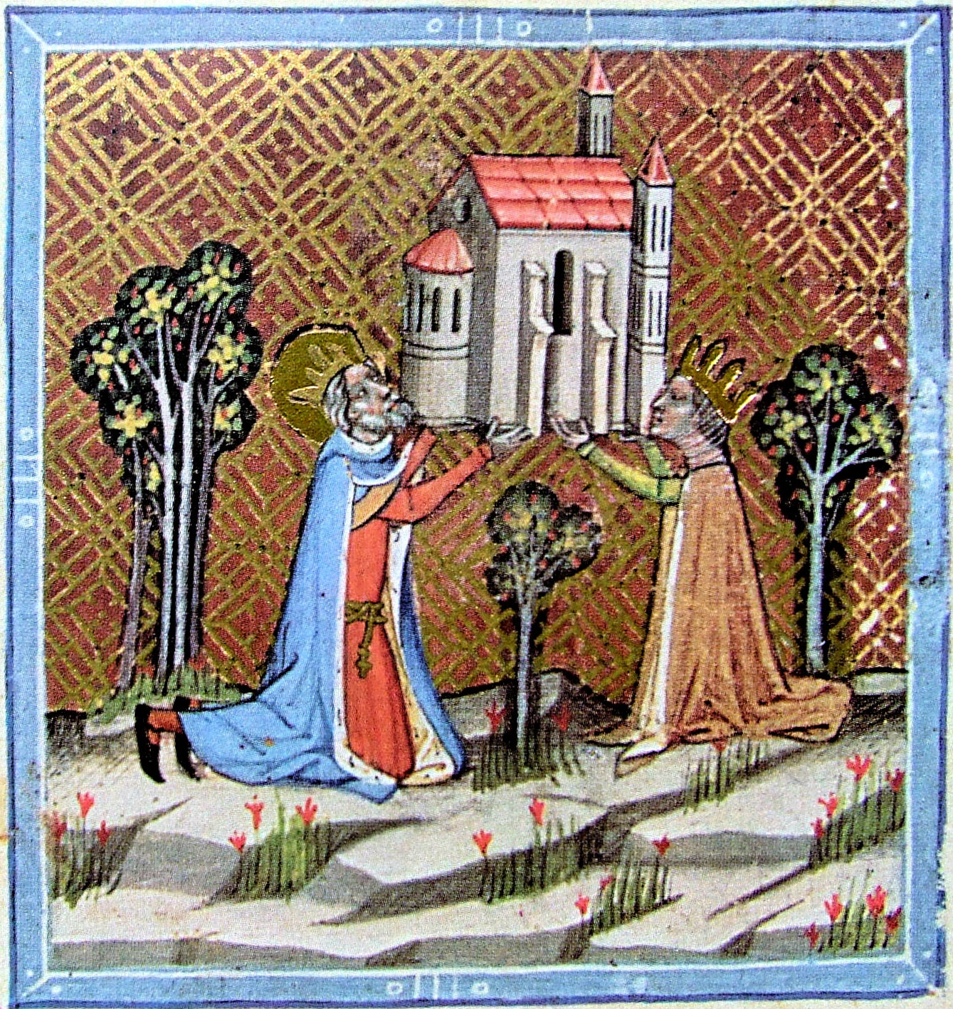 Commemoration on the Foundation of the Church in Obuda